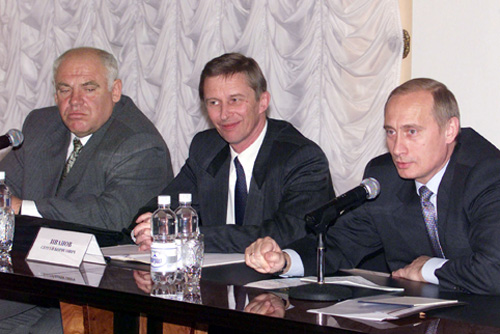 ROSTOV-ON-DON. President Putin meeting with regional leaders from the Southern Federal District. The meeting was attended by Sergei Ivanov, Secretary of the Security Council, and Viktor Kazantsev (left), the Presidential Envoy to the Southern Federal District.